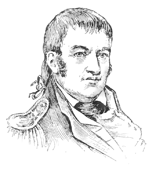 Duncan McArthur, from appletons encyclopedia.